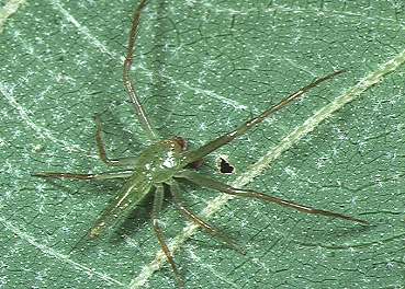 male Oxytate hoshizuna from Okinawa.